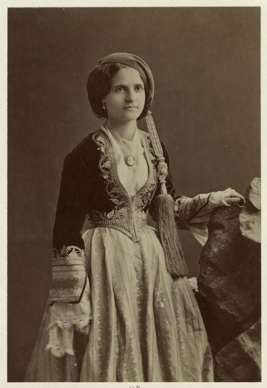 A young Greek-American immigrant on Ellis Island, New York late 19th-20th century - Hulton Archive